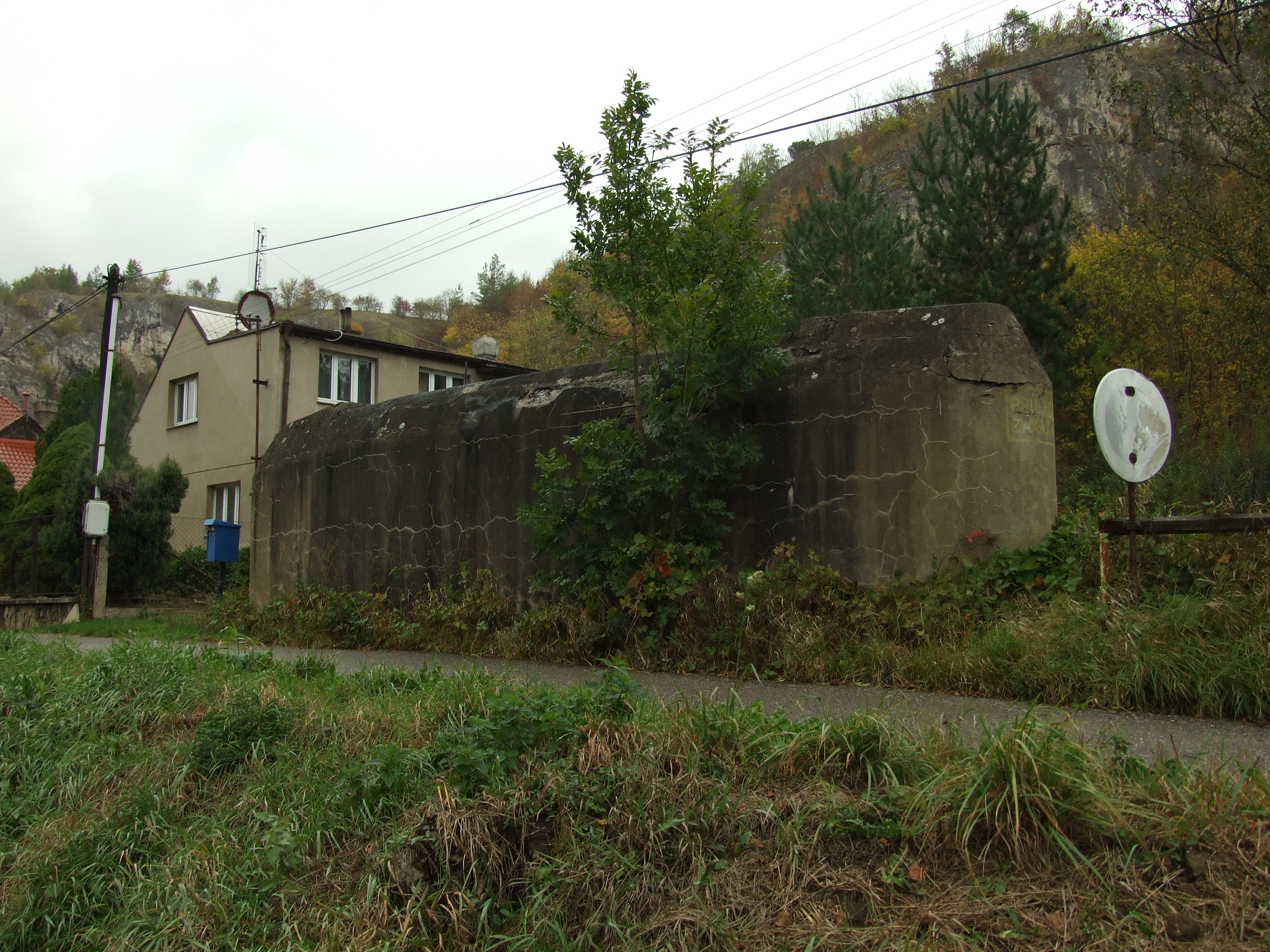 WWII Czechoslovak fortification near Prague between the town of Beroun and village of Srbsko. Central Bohemian Region, CZhelp